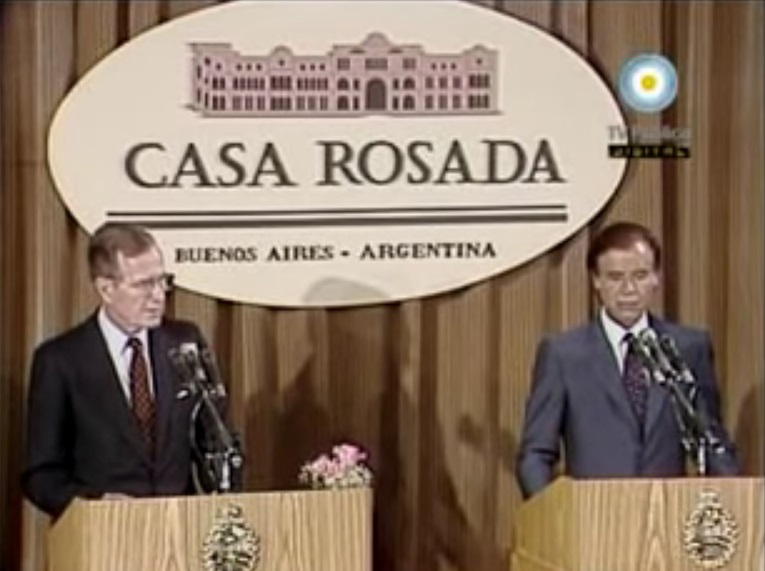 Press conference at Pink House, in Argentina, President of Argentina, Carlos S. Menem and President of the United States, George H. W. Bush, during his visit to Buenos Aires, december, 1990.